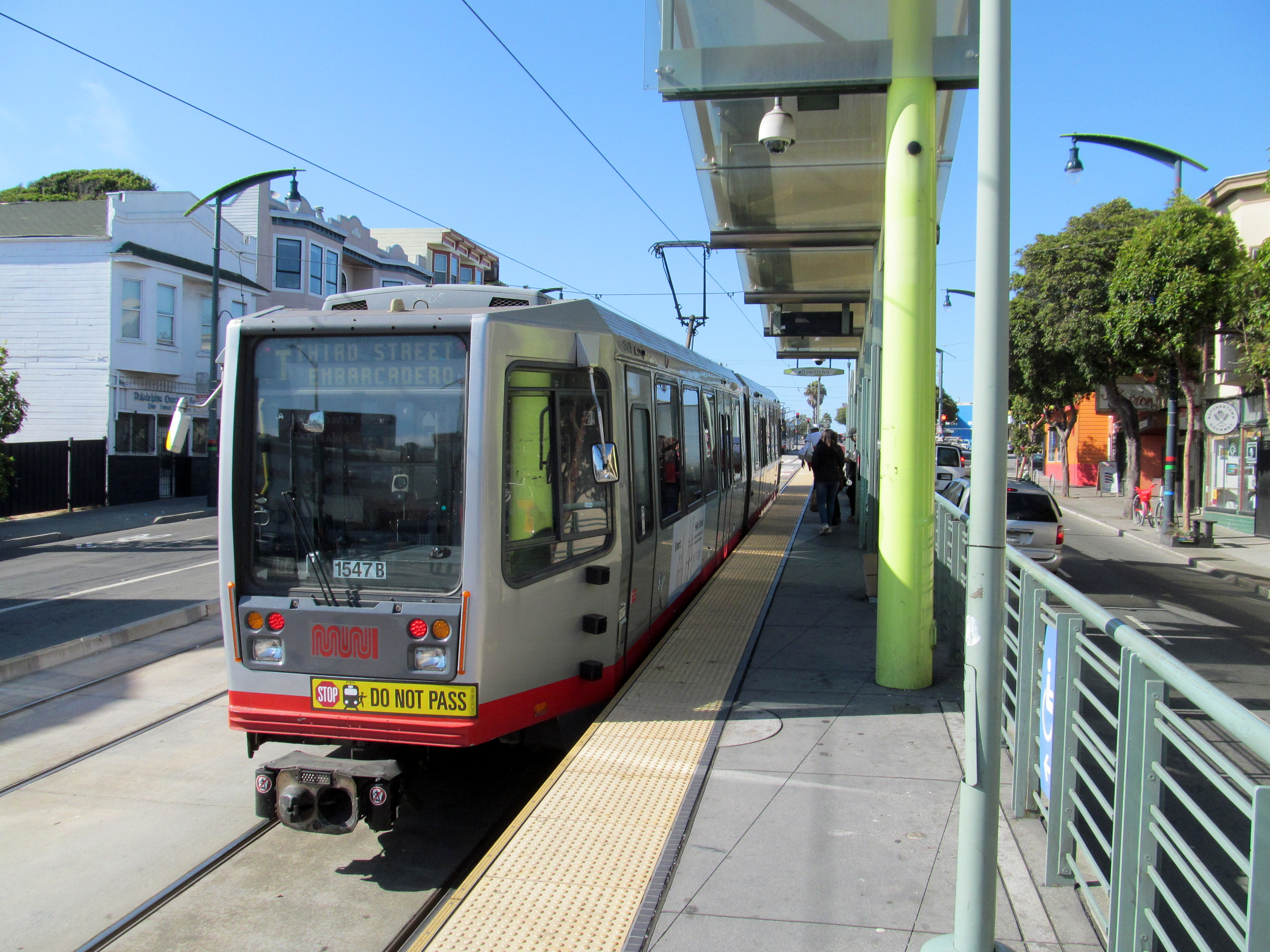 Northbound train at Williams station in July 2017